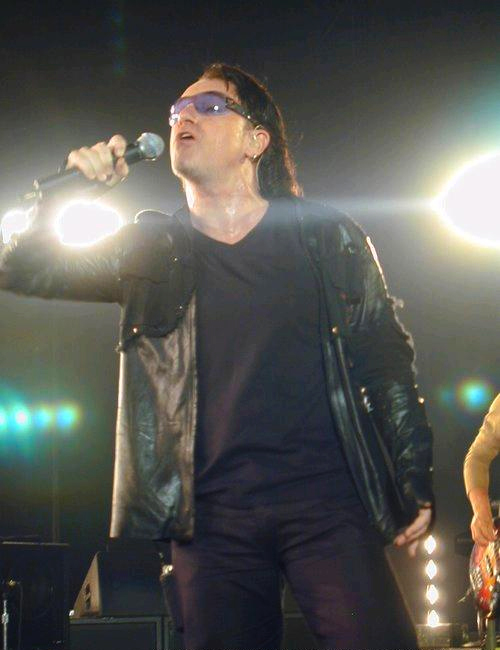 U2 performs at Olympiahalle in Munich, Germany on the Elevation Tour on July 15, 2001